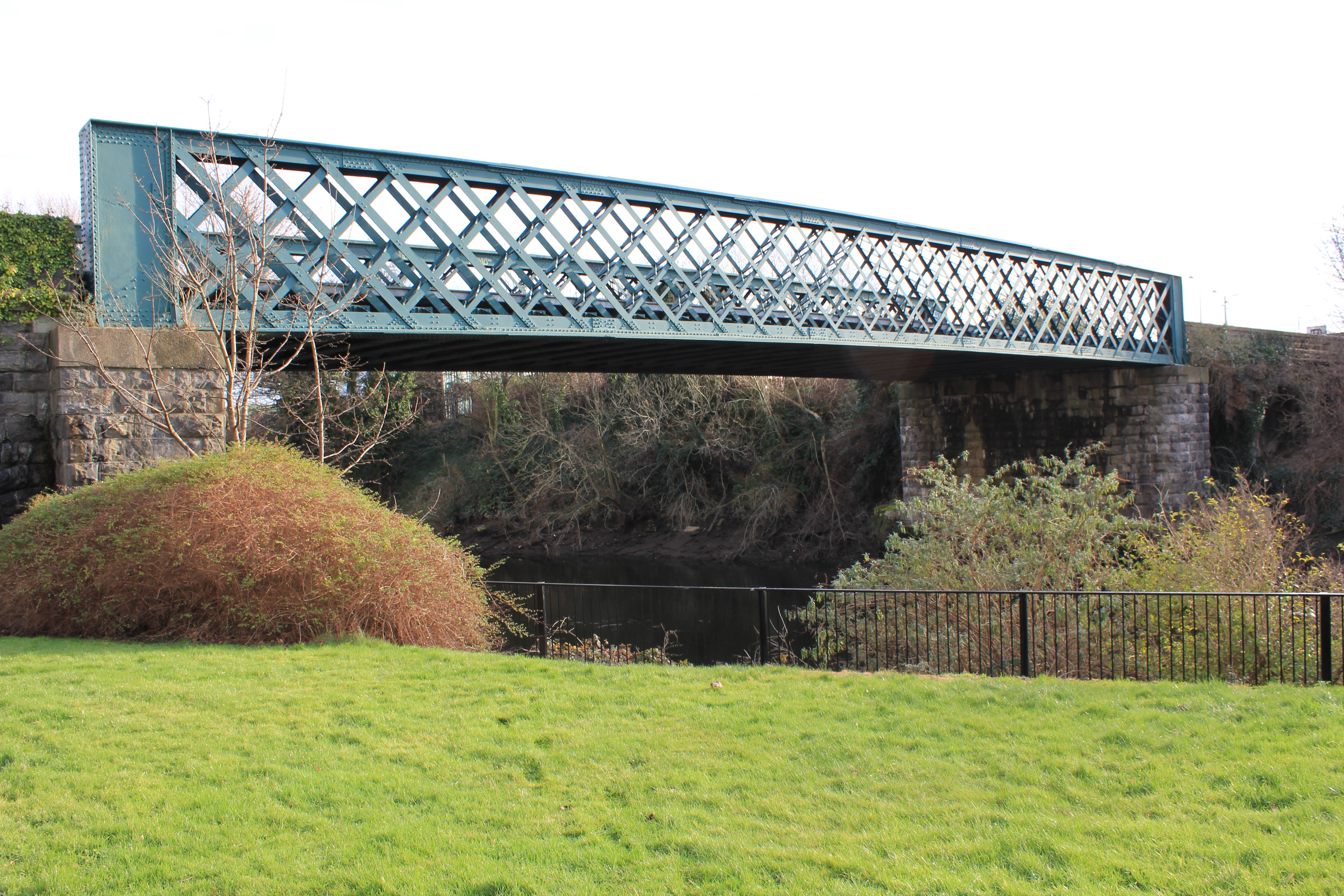 Liffey Railway Bridge, Dublin, 2012.